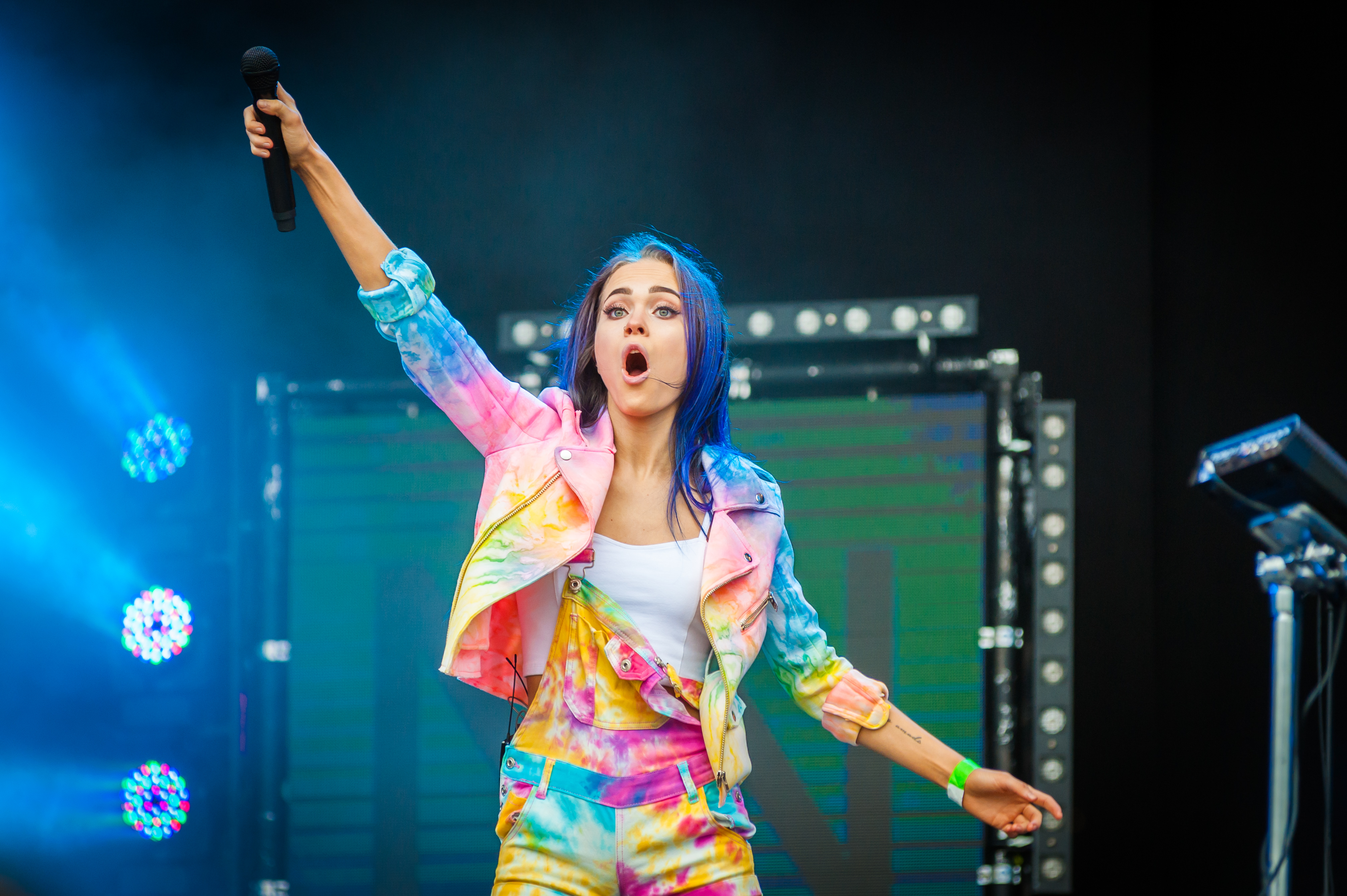 Finnish pop singer Sanni performing at the Ilosaarirock festival in Joensuu, Finland.